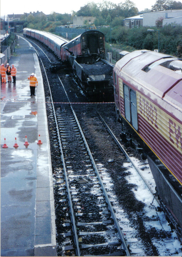 Lawrence Hill railway station On 1 November 2000 an empty Royal Mail train slammed into the back of a loaded coal train at Lawrence Hill station. The mail train's locomotive was knocked off the track and catapulted over the other train. The driver of the mail train suffered head injuries in the crash. The cause of the crash was not immediately known, but officials said that the mail train had passed through two red lights. Uploaded to Flickr on 6 Jan 2007 by Floyd Nello, upload to commons by Quatro Valvole on 14 Jan 2008.